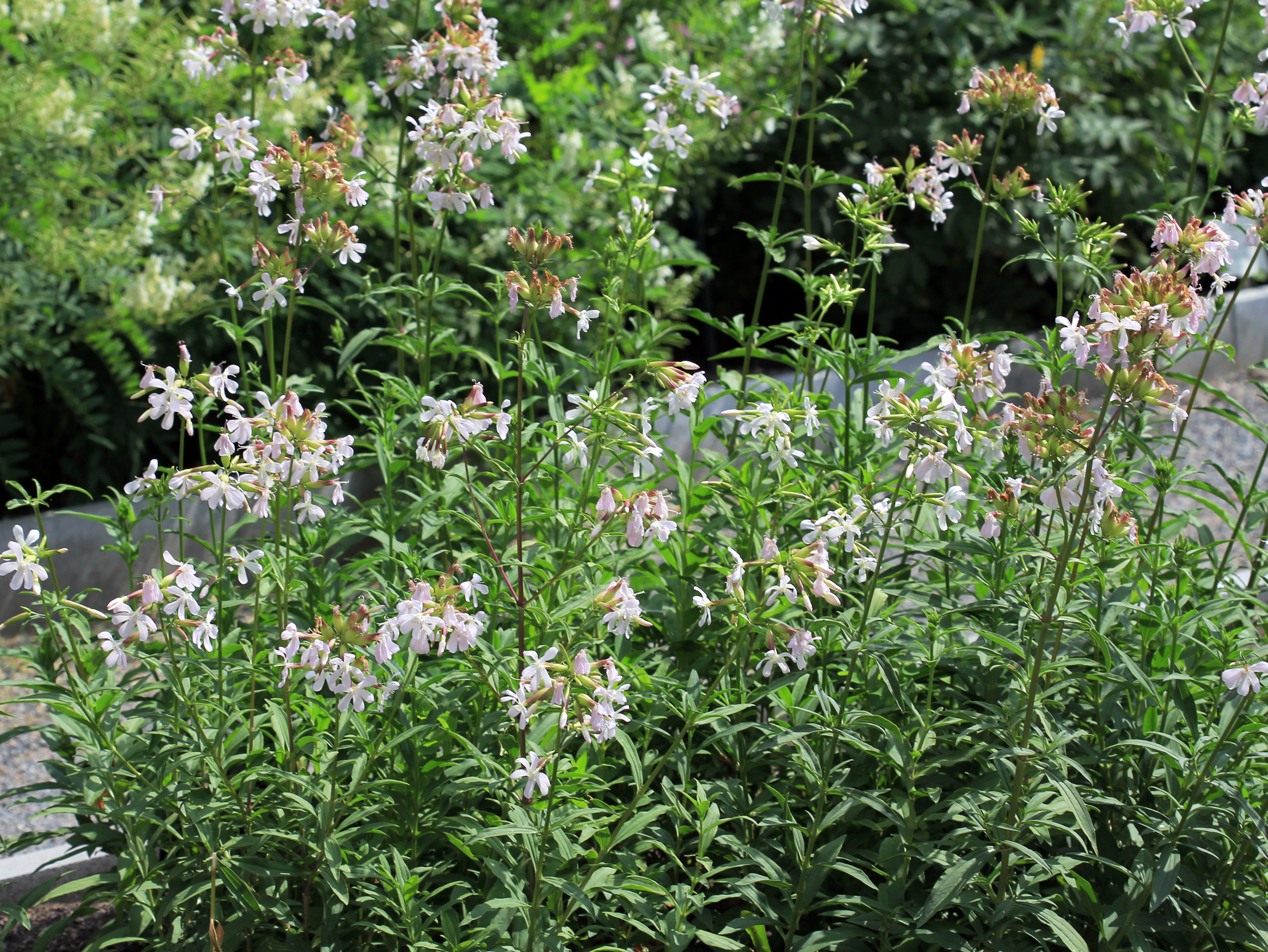 Flowering plants Common Soapwort Saponaria officinalis from the Botanical Gardens of Charles University, Prague, Czech Republic